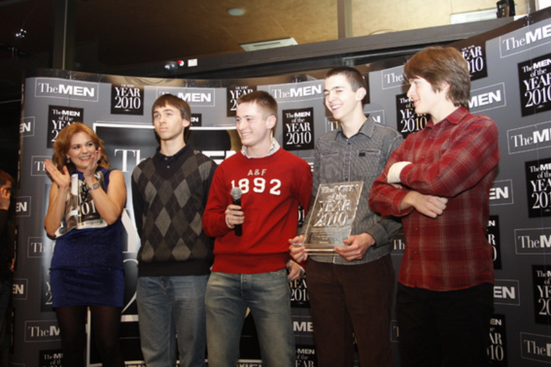 The Men Magazine award "The MEN of the Year 2010" went to 4 MGB students: Teodor fon Burg, Rade Špegar, Stevan Gajović, and Filip Živanović. This image shows MGB student Rade Špegar giving a short speech at the ceremony.